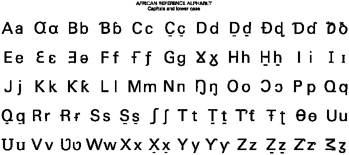 African reference alphabet as presented 1978 on the Niamey meeting. See the meeting report. Scan taken from (some dirt removed).